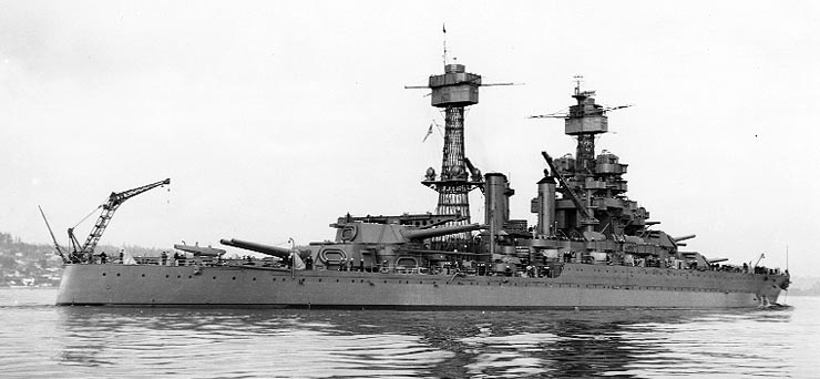 "Maryland (BB-46) at Puget Sound on 9 February 1942. The remaining Pacific Fleet battleships were kept at a 48 hour state of readiness due to invasion fears on the West Coast. Very little rebuild work could be done with this sailing time restriction. Little damaged at Pearl Harbor, she sailed for the main land as soon as she could be freed from her docking quay. Visible are the splinter shields on her 5"/25 mounts. She still carries 5"/51 guns in casemates."